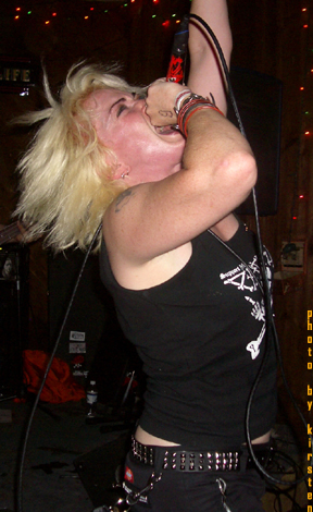 Cinder Block live with Retching Red.